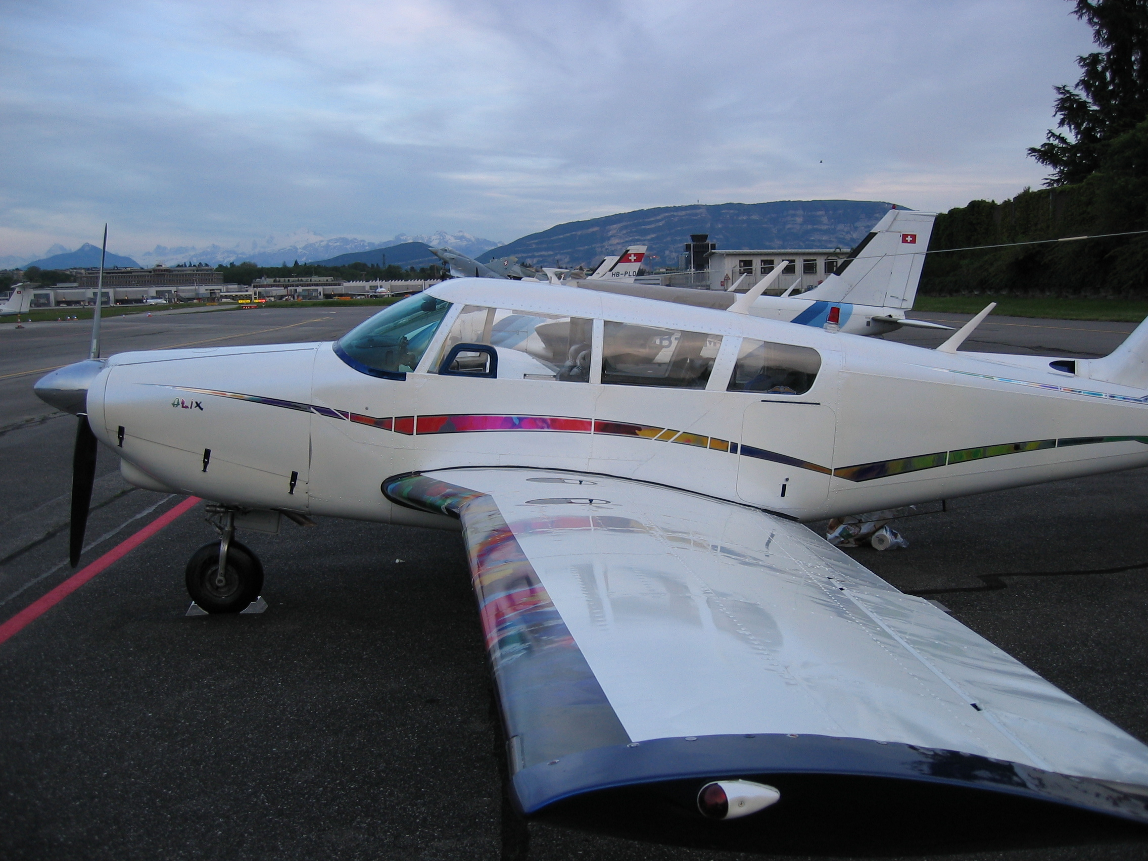 Piper PA-24 260B Comanche Vue profil gauche